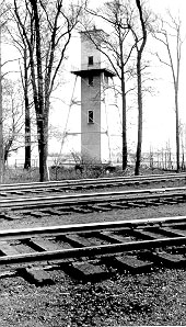 Craighill Cut-off Channel Range Rear Light Station (Baltimore County, Maryland). This image or file is a work of a United States Coast Guard service personnel or employee, taken or made as part of that person's official duties. As a work of the U.S. federal government, the image or file is in the public domain (17 U.S.C. § 101 and § 105, USCG main privacy policy and specific privacy policy for its imagery server).